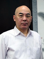 Naoki Hyakuta, television writer, met Kiyoaki Kawanami, Commander of the 9th Air Wing, Southwestern Air Defense Force, Air Defense Command, Air Self-Defense Force, at Naha Airbase, Air Self-Defense Force in Naha City, Okinawa Prefecture on October 29, 2017.